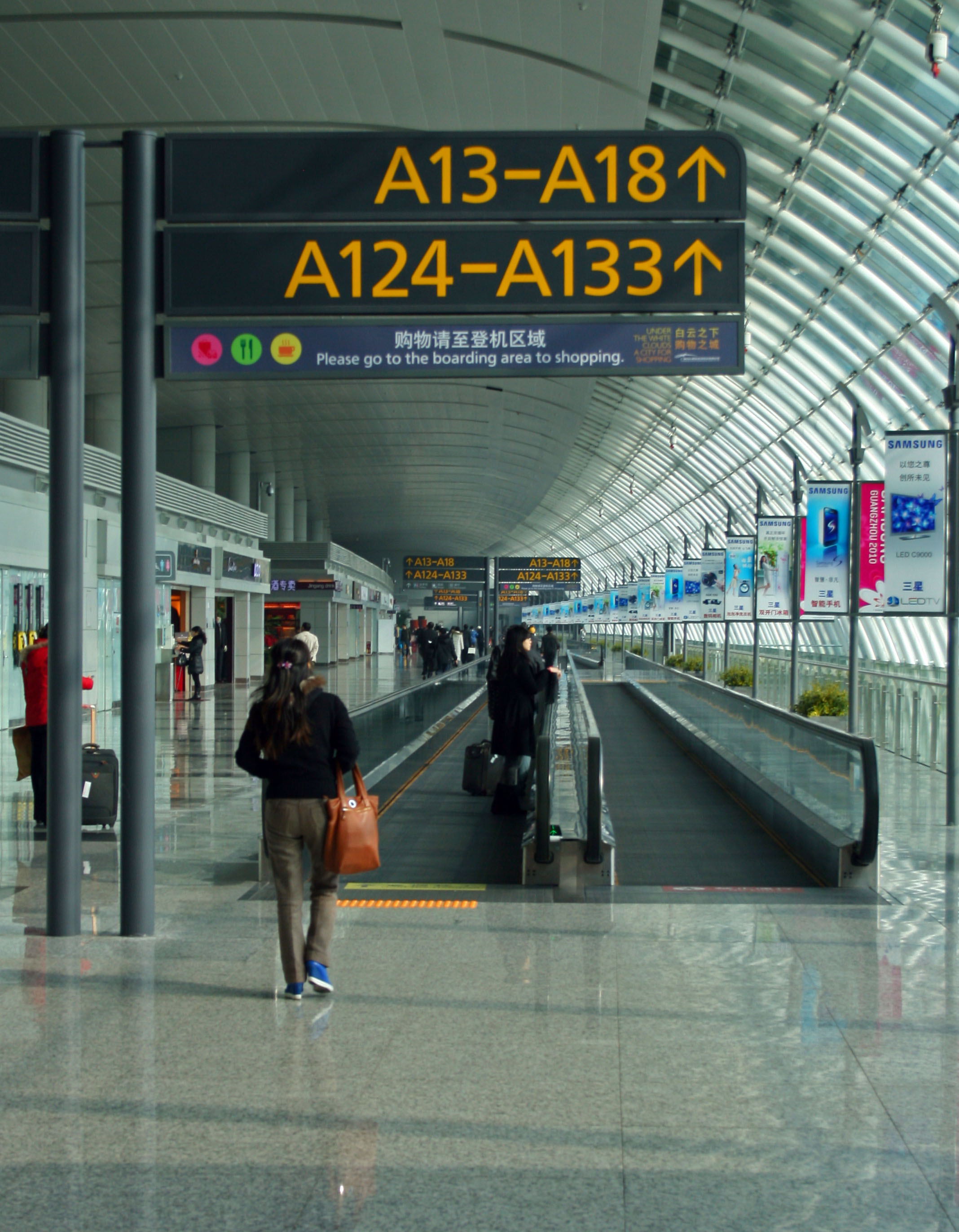 Electric transporting system of Guangzhou Baiyun International Airport (CAN)